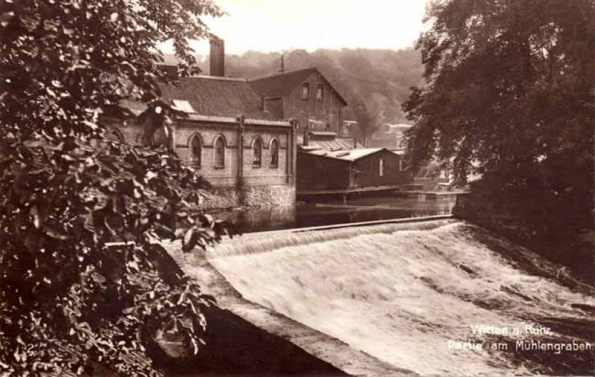 shovel factory Bredt in Witten 1920